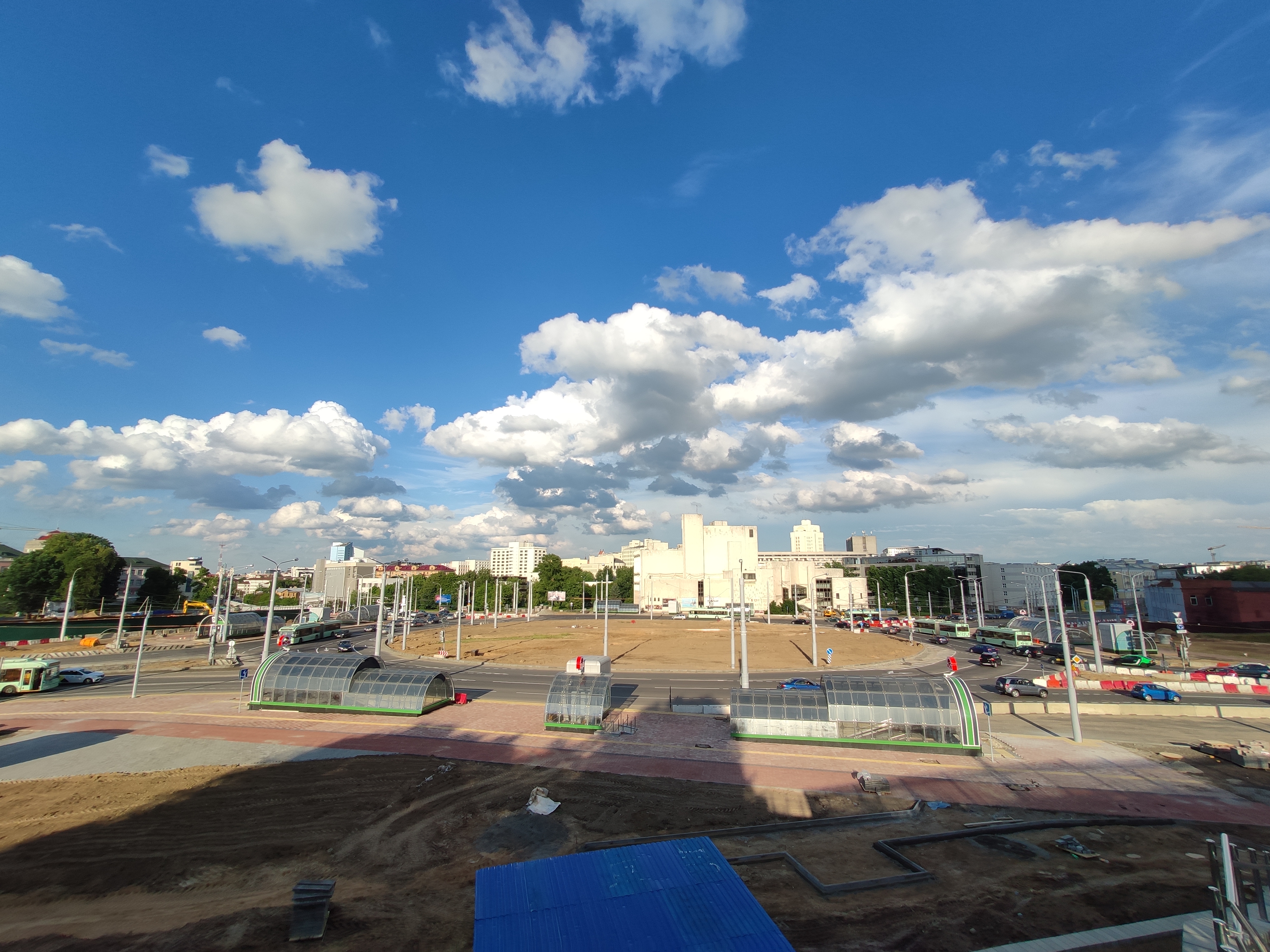 Bahushevich square in Minsk